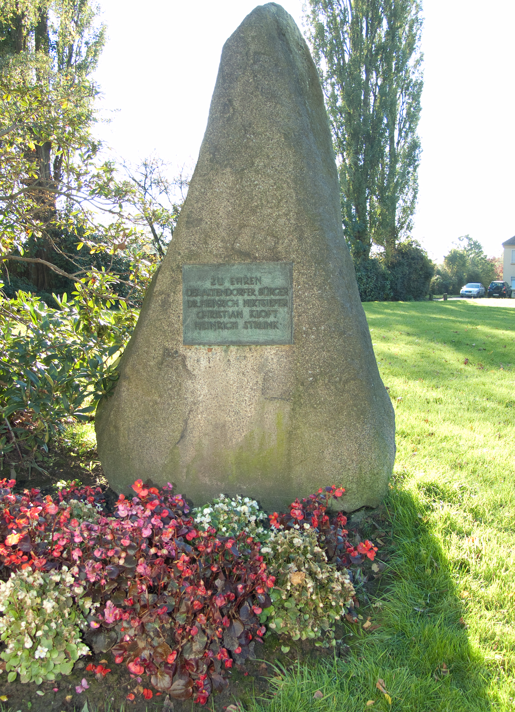 Memorial stone for Heinrich Hirtsiefer, Christian Kloft und Heinrich Strunk (citizens of Essen) in Essen-Altendorf.